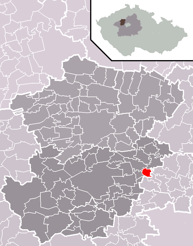 Location of Libochovičky municipality within Kladno District and administrative area of Kladno as a Municipality with Extended Competence.